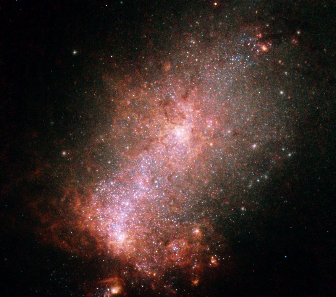 This irregular blob of a galaxy has some serious star formation going on. The star cluster slightly up and to the right of center is the one referenced in this proposal as 'The Most Extreme Wolf-Rayet Star Cluster Known in the Local Universe' by Dr. Rupali Chandar. Watch her talking about her findings regarding star clusters in general here . They talk about the HLA at the end! I am dubious about ever making a discovery that forever changes the way we view the universe as is used for a closing statement, but yeah, the HLA is pretty sweet. Anyway, if you dare, you can attempt to read a paper on NGC 3125-A1 here . If not, I will roughly translate it for you in a single sentence: Hot diggity dang, there's a lot of ionized helium there. Some things to point out: The fuzzy, white "stars" dotting the edges of the galaxy are actually globular clusters, so that gives you a better sense for the scale of the galaxy. It's not a huge galaxy but the the star formation is raging as can be inferred by the red filaments of H-alpha which virtually encompass the whole thing and the usual accompanying hot, young, blue stars. Annotation of star cluster locations is here , which I made by referencing the paper I mentioned earlier. This picture features wideband infrared, green, blue, and ultraviolet filters along with the lovable H-alpha filter. Note I did use the F814W filter across all three channels but mostly it inhabits the red along with the H-alpha. Red: HST_10400_01_ACS_HRC_F814W_sci + HST_10400_01_ACS_HRC_F658N_sci Green: HST_10400_01_ACS_HRC_F555W_sci Blue: HST_10400_01_ACS_HRC_F435W_sci + HST_10400_01_ACS_HRC_F330W_sci North is NOT up. It is 26.9° counter-clockwise from up.